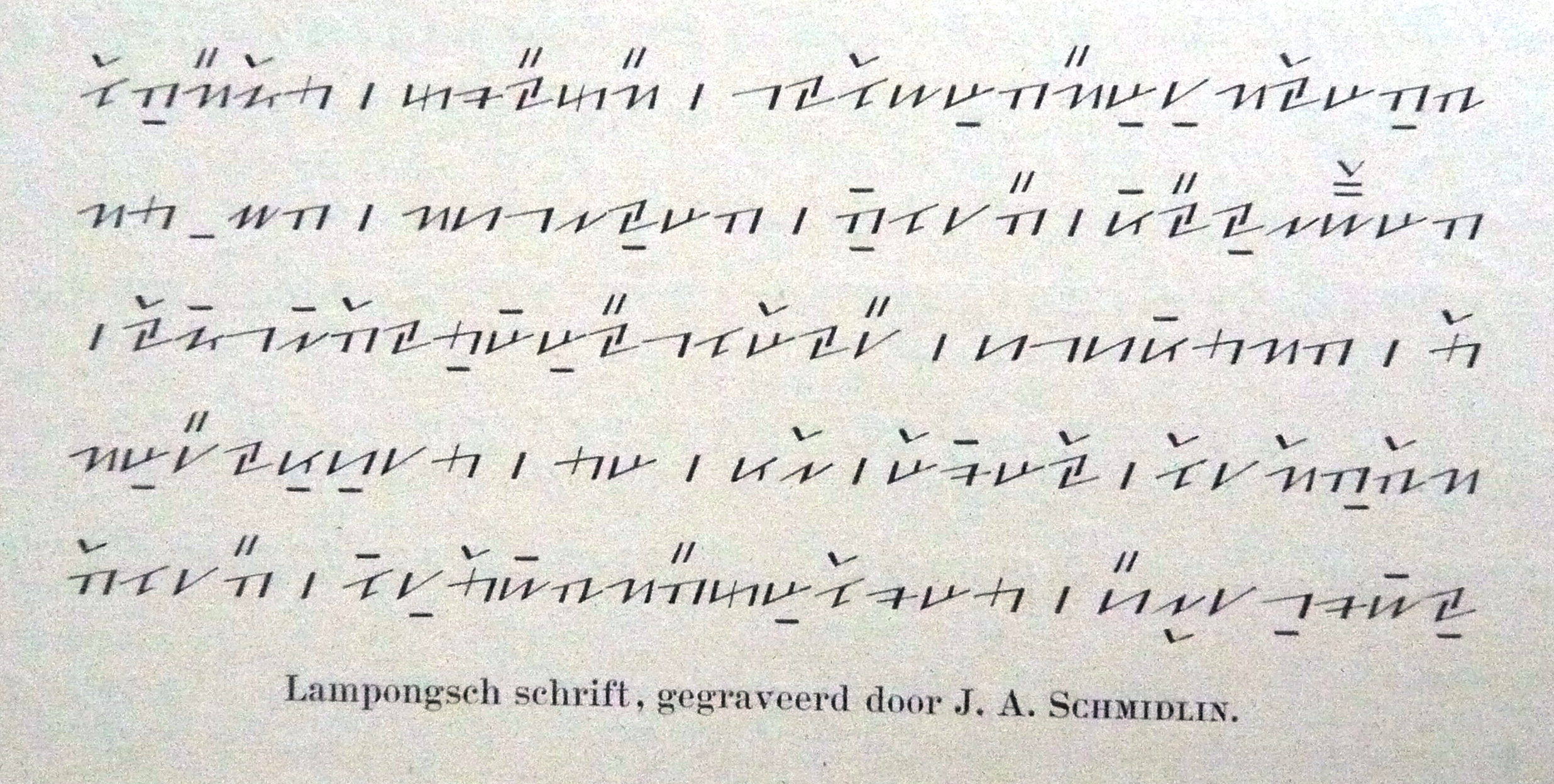 Illustration from Haarlem printing company Joh. Enschedé anniversary publication, produced on the occasion of their 150th anniversary in 1893 Lampong letters by JA Schmidlin